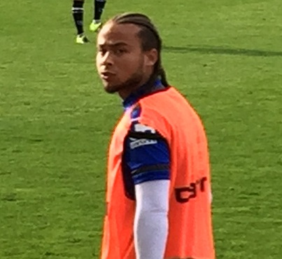 Notts County footballer Curtis Thompson as a substitute warming up during the League Two match against AFC Wimbledon at Kingsmeadow on 19 September 2015